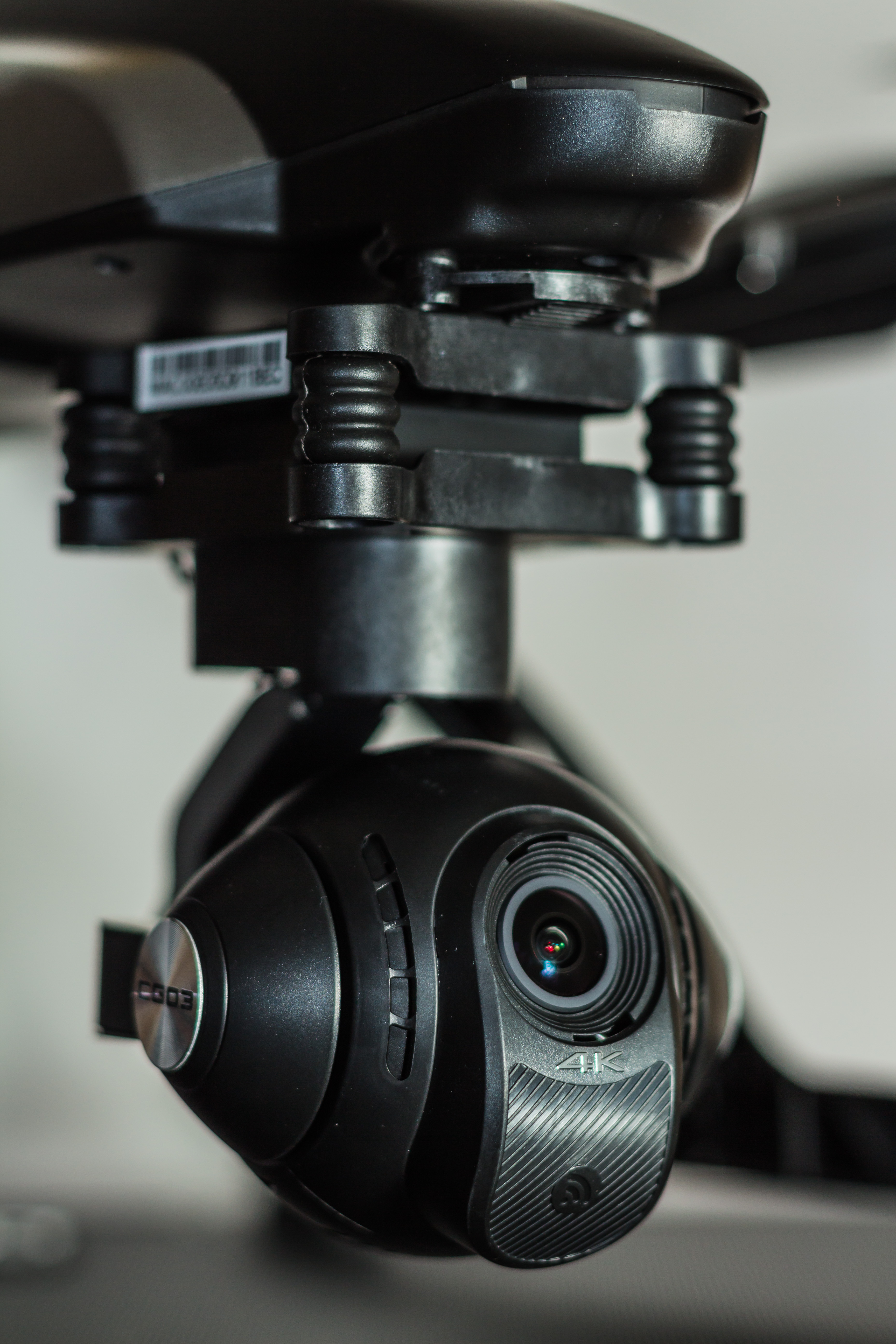 The camera and gimbal of the Yuneec Typhoon Q500 4K quadrotor.